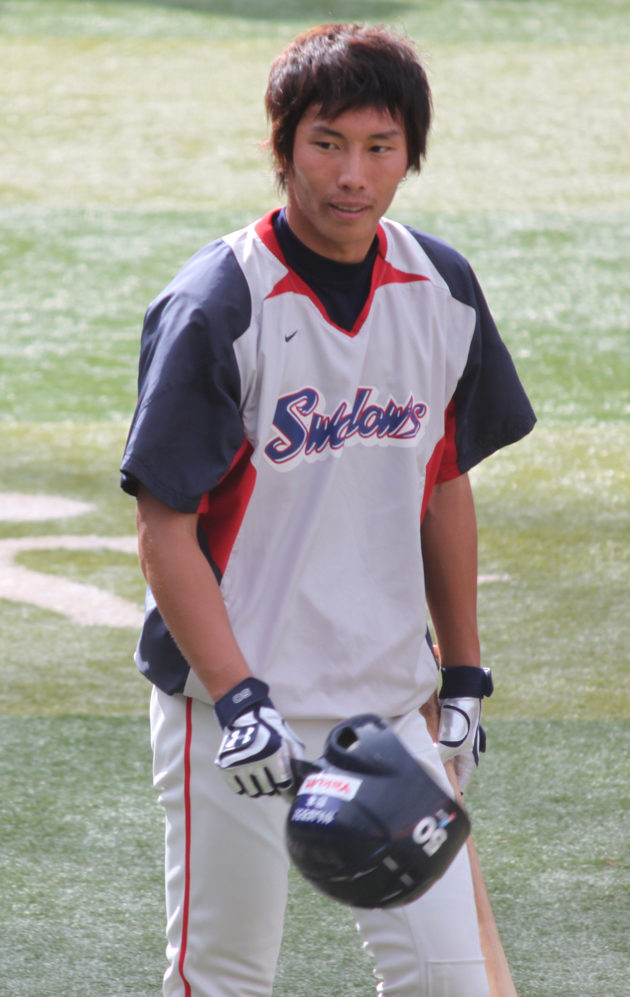 Tsuyoshi Ueda, outfielder of the Tokyo Yakult Swallows, at Yokohama Stadium.